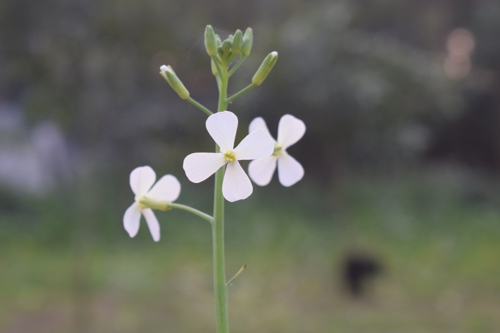 flowers